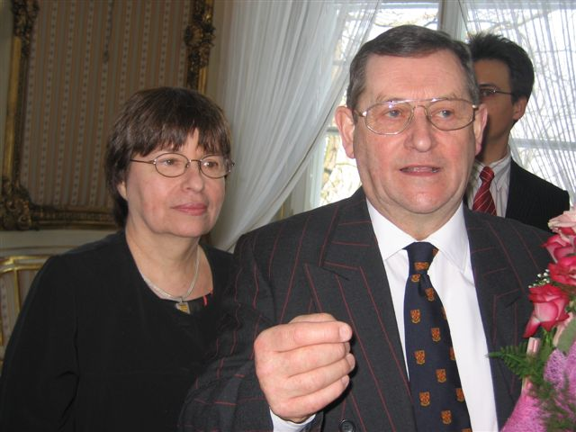 Norman Davies (b. 1939), British historian and his wife